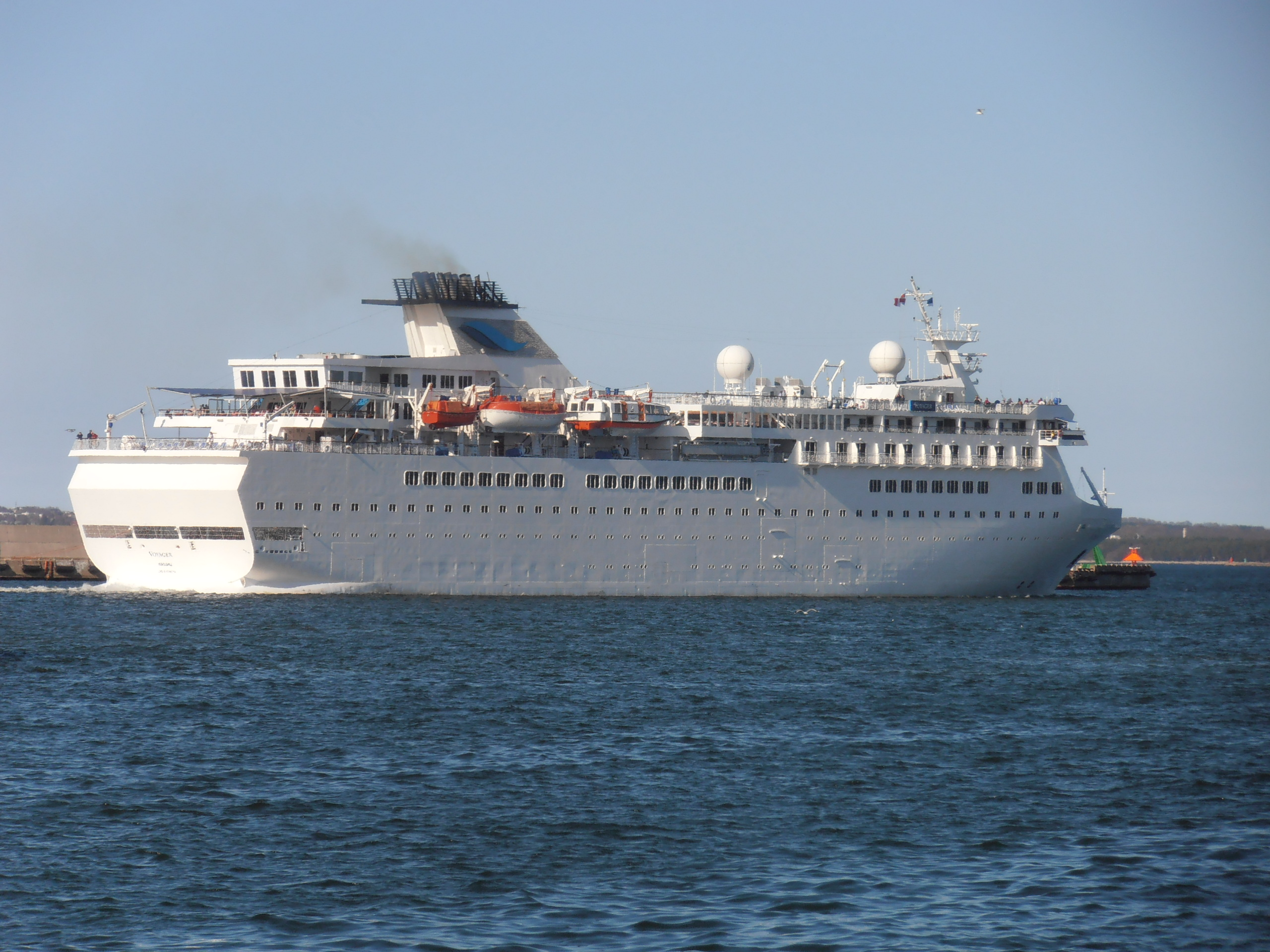 Voyager (IMO 8709573) departing Tallinn 8 May 2013